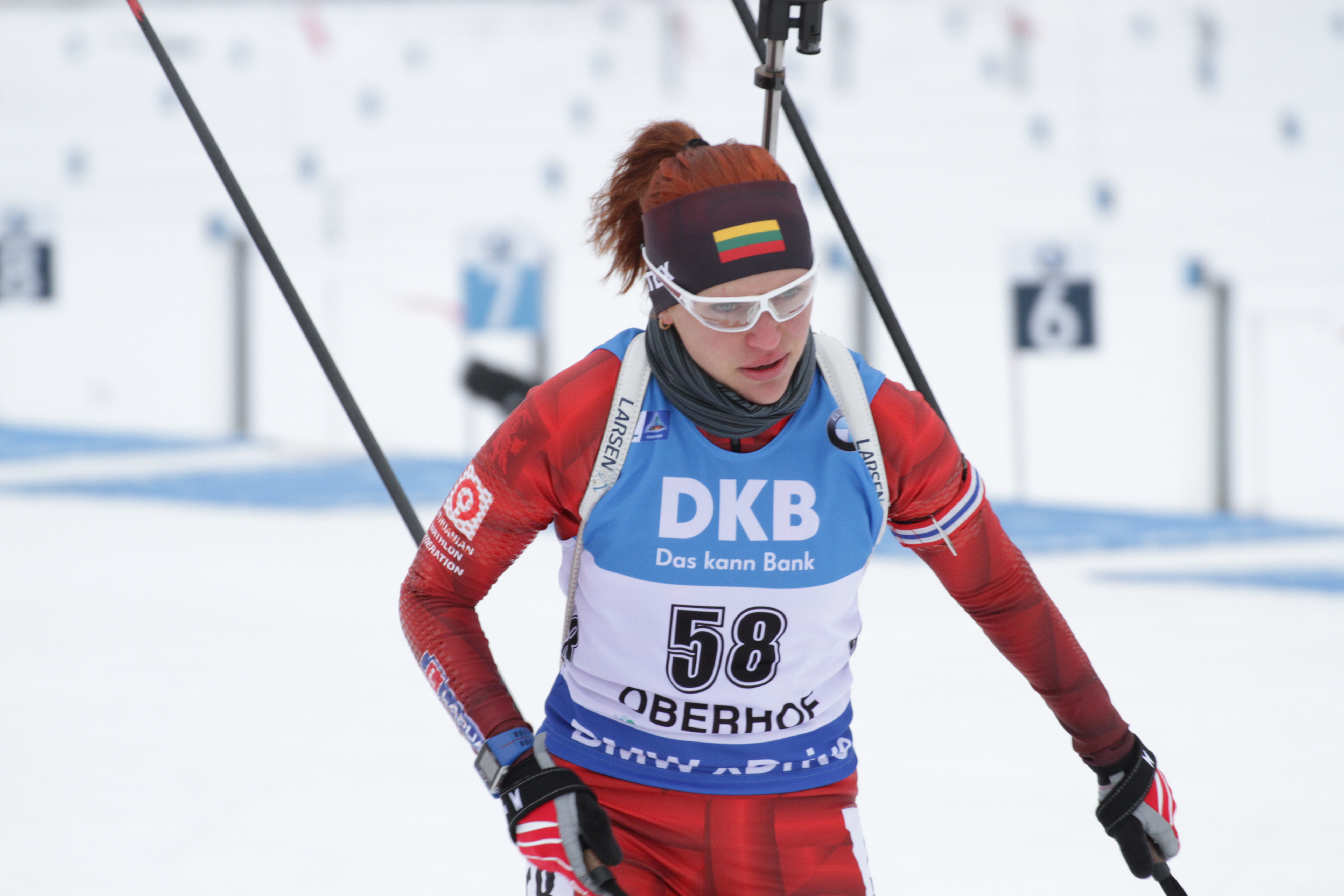 2018 Oberhof Biathlon World Cup - Sprint Women